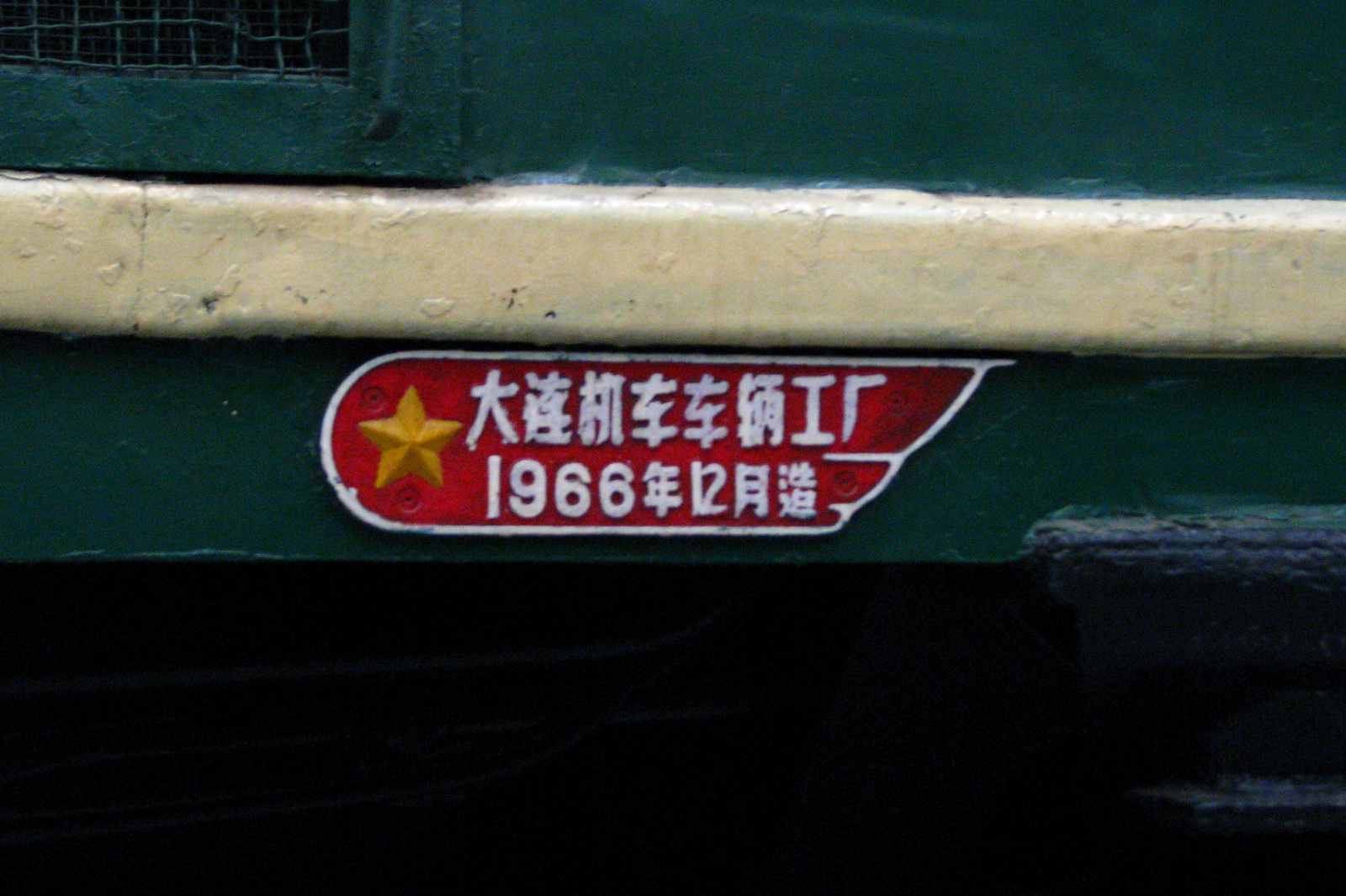 The factory name plate on China Railways DF1301 diesel locomotive.